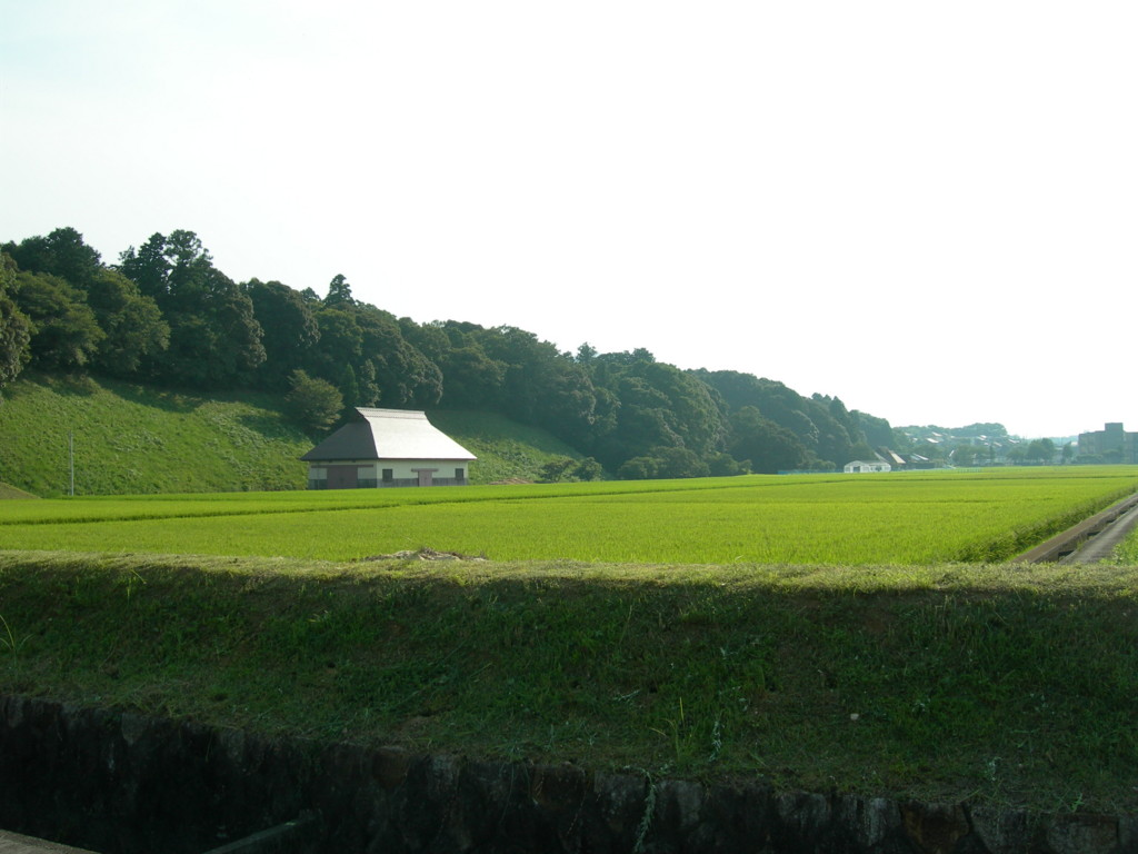 The Jingu-shinden, the paddy field in Jingu, Kusube-cho, Ise, Mie, Japan.